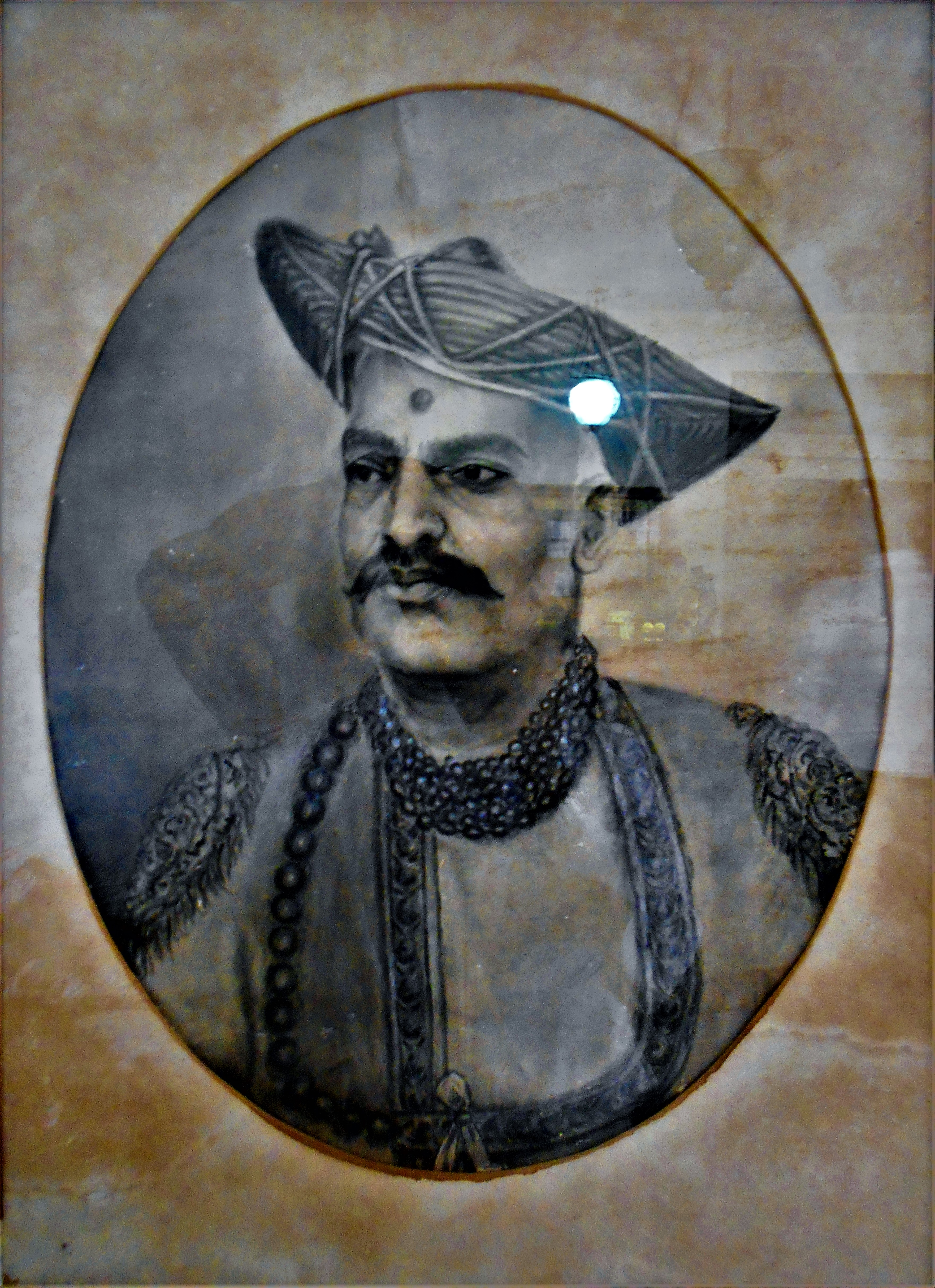 Sarkhel Manaji Angre II. Admiral of Maratha Navy 1793 - 1817. This image has been uploaded here with the kind permission of Raghuji Raje Angre, the present descendent of Kanhoji Angre.